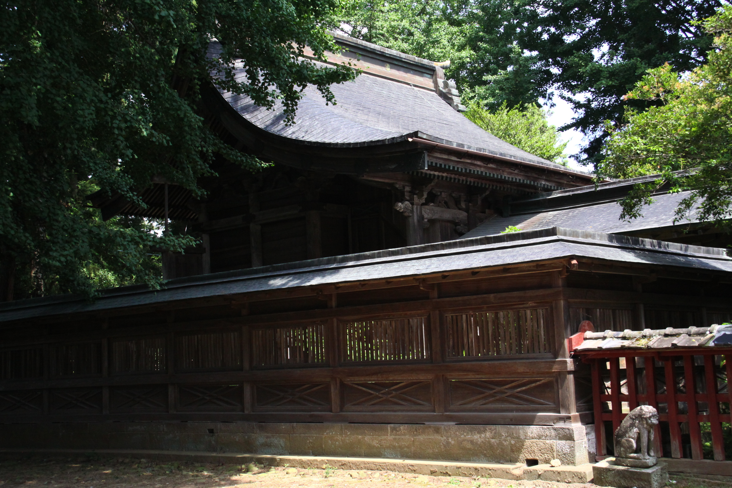 Kattamine jinja Honden